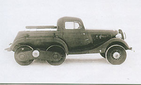 Soviet experimental half-track car GAZ-VM with pickup body during the state tests, right view.